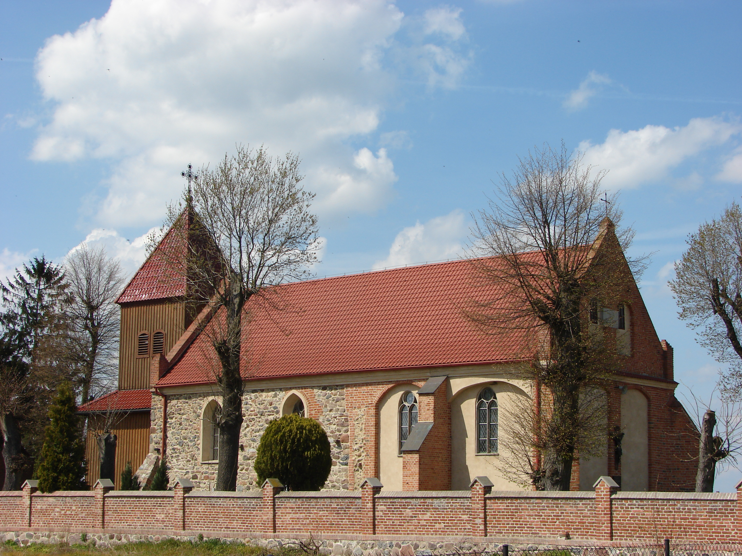 Kijewo Królewskie, church of St Lawrence. XIII century, rebuilt in XVII.